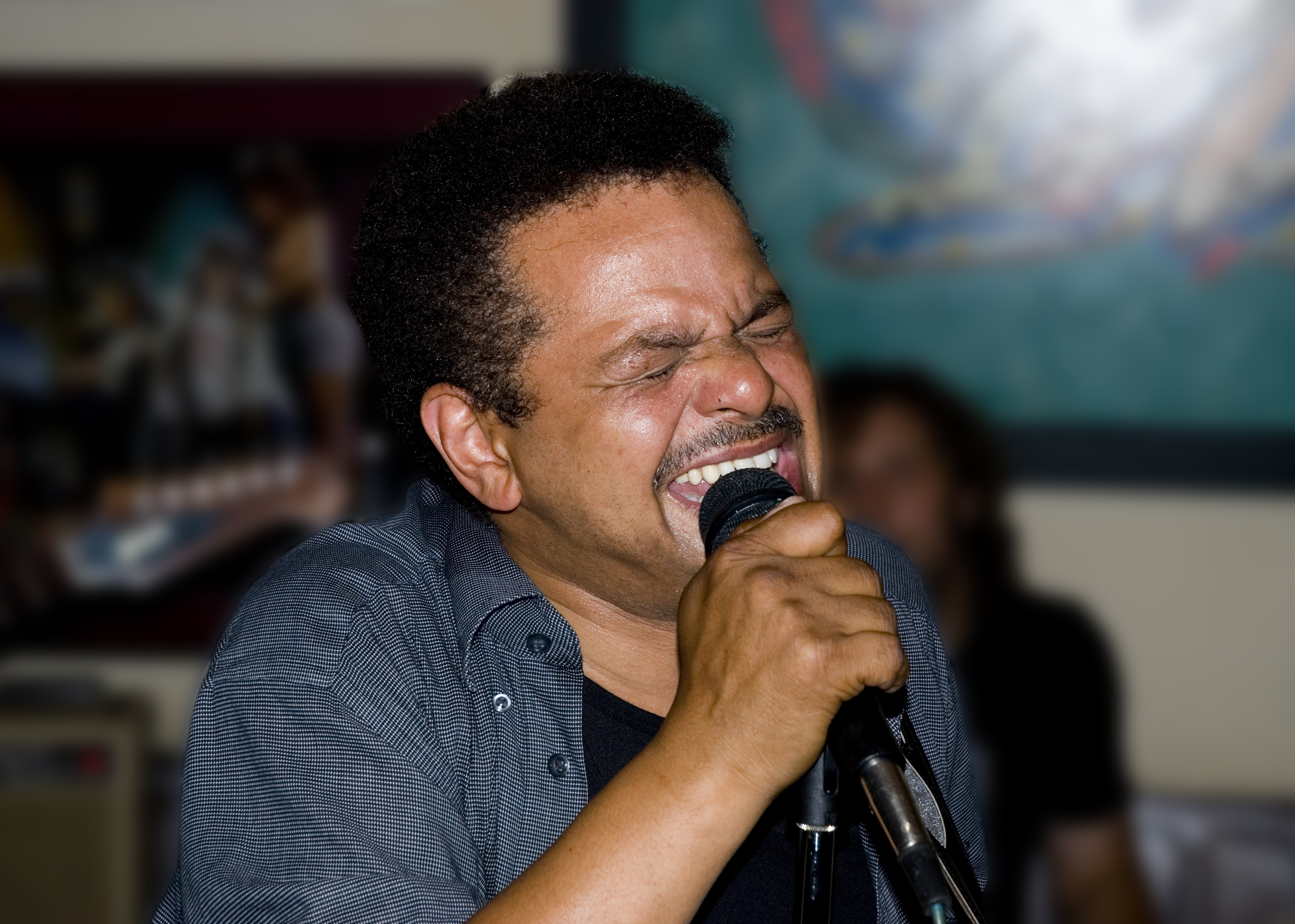 Al Jones live performing at Satchmo Elsdorf, Germany 2007